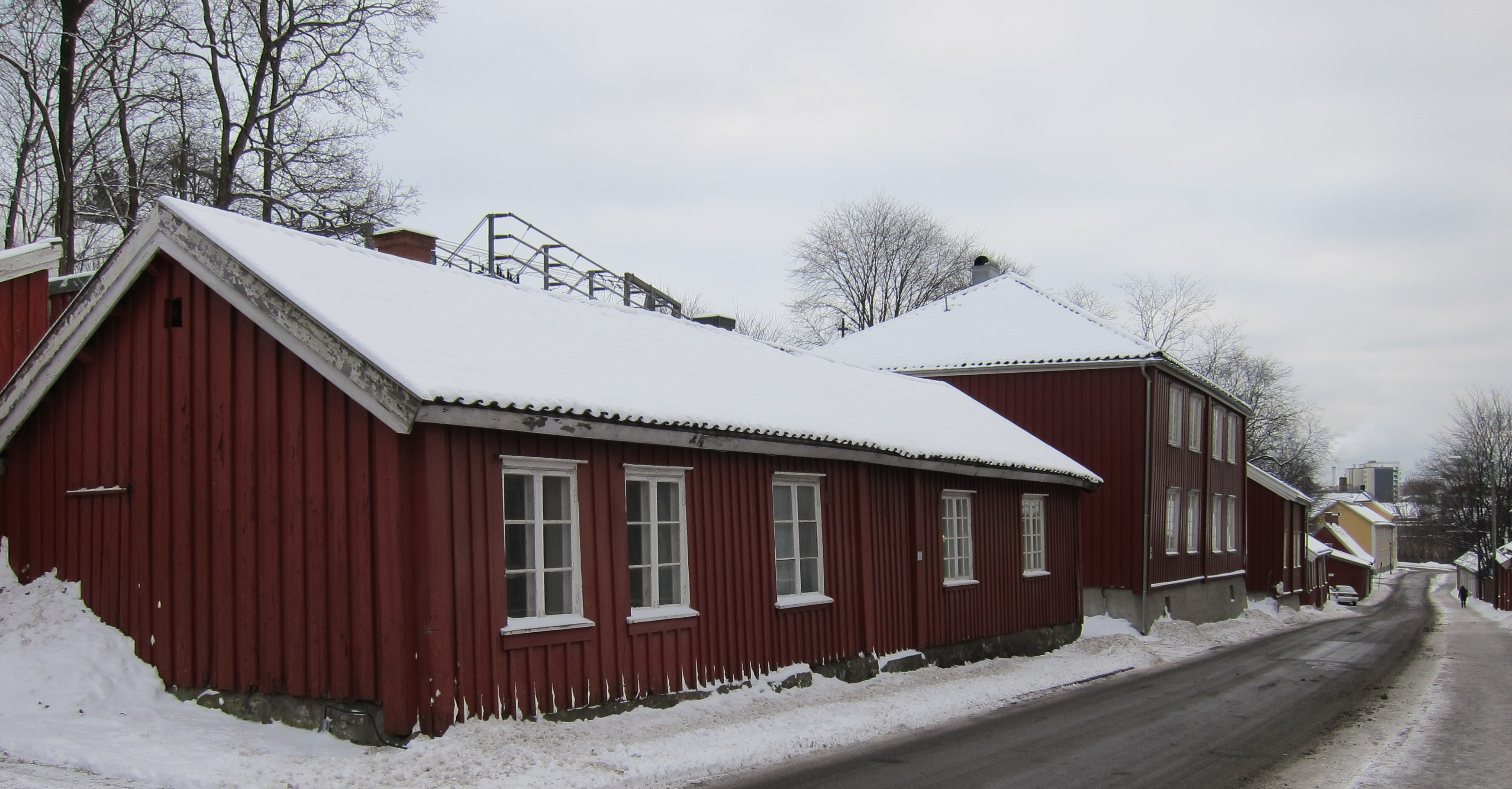 Old wooden house, originally for Moss Ironworks (Moss Jernverk in Norwegian) workers in Moss, Norway. The houses are on the eastern side of the road passing through. The road was in earlier times the main road from Christiania to Gothenburg.